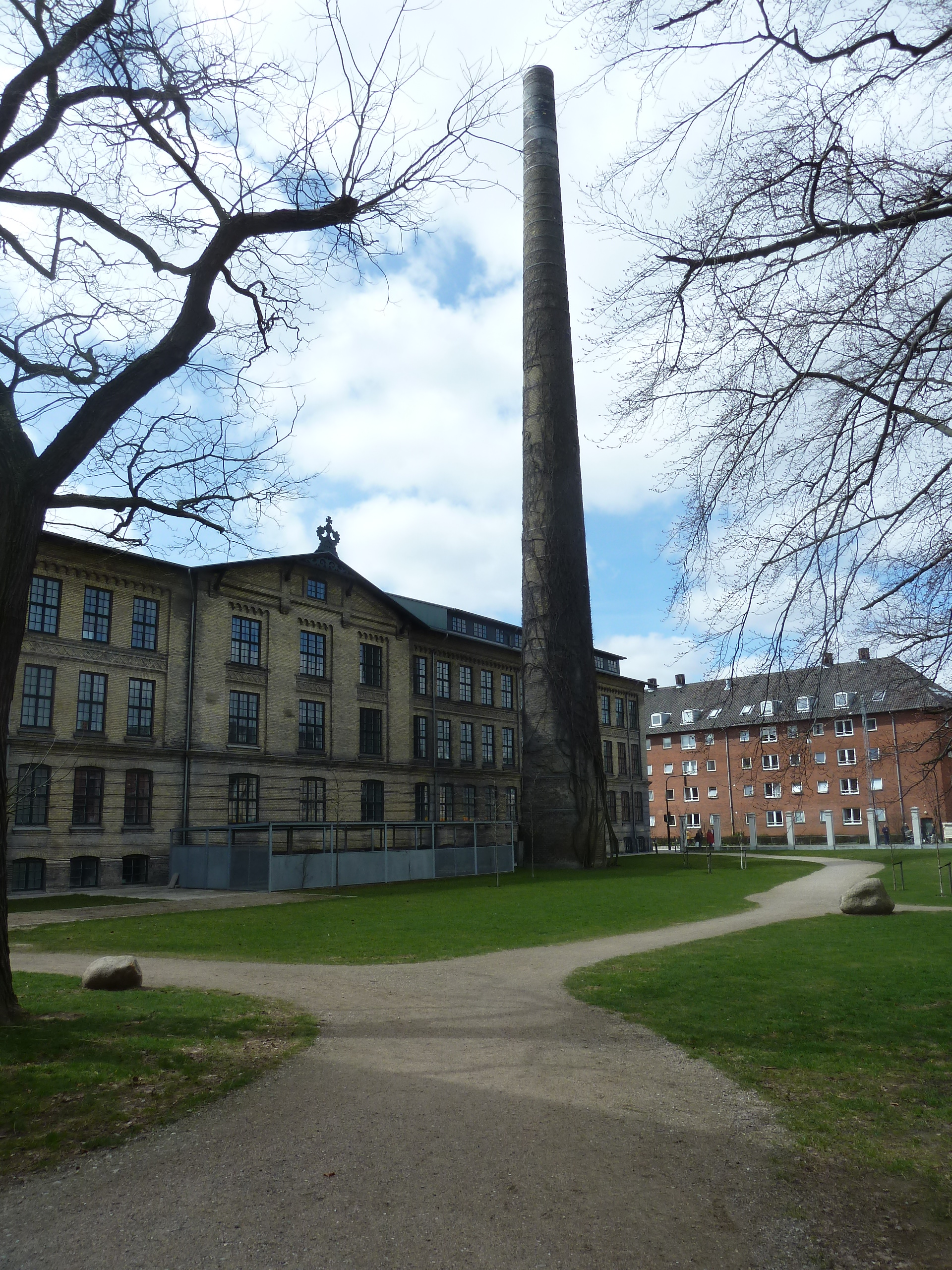 Porcelænshaven in the Frederiksberg district of Copenhagen, Denmark